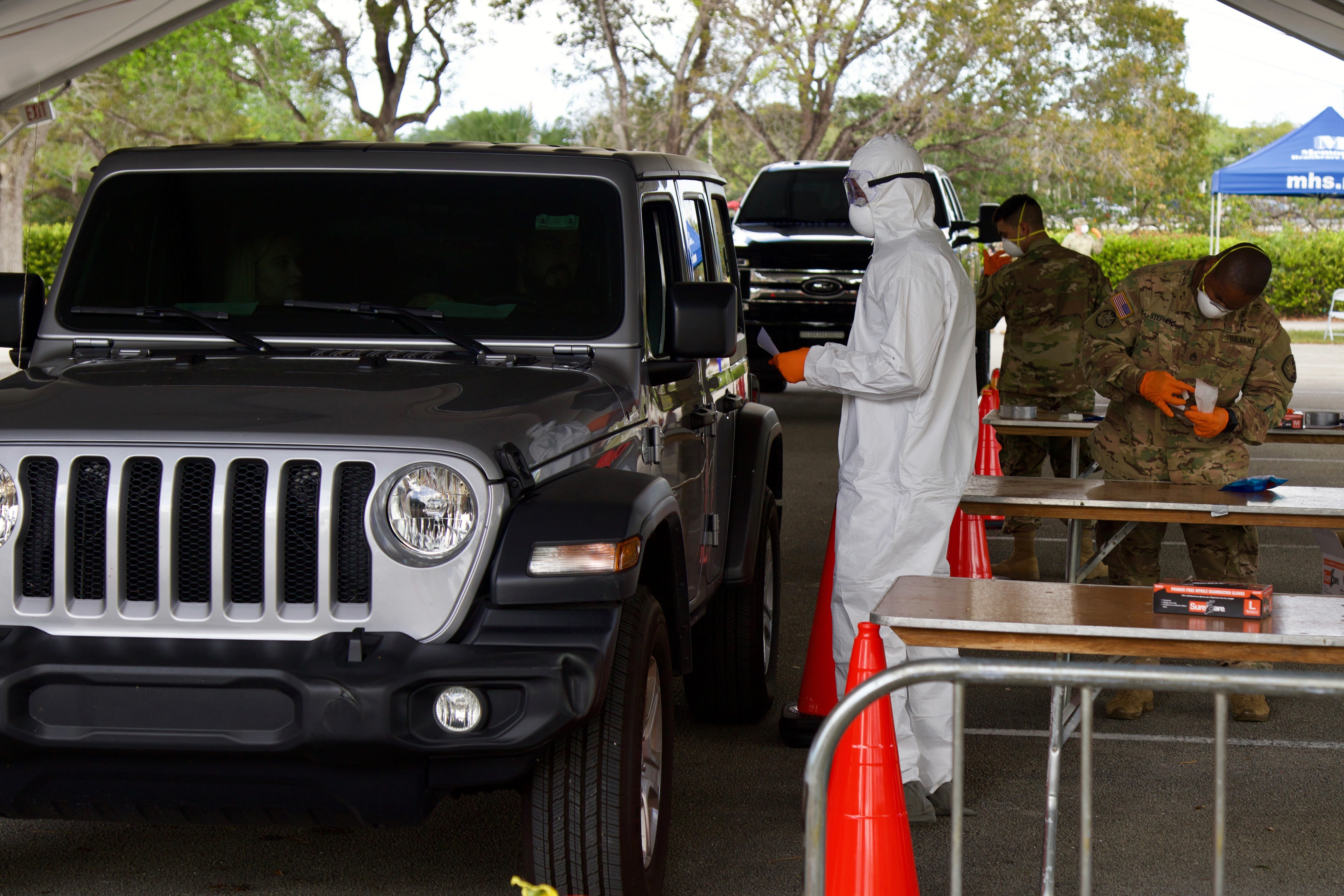 Florida National Guard Spc. Carlton Douge, with the Florida Medical Detachment, prepares to retrieve a sample from the patient at a COVID-19 Community Based Testing Site, March 19, 2020. South Florida’s first COVID-19 Community Based Testing Site is located at C. B. Smith Park.